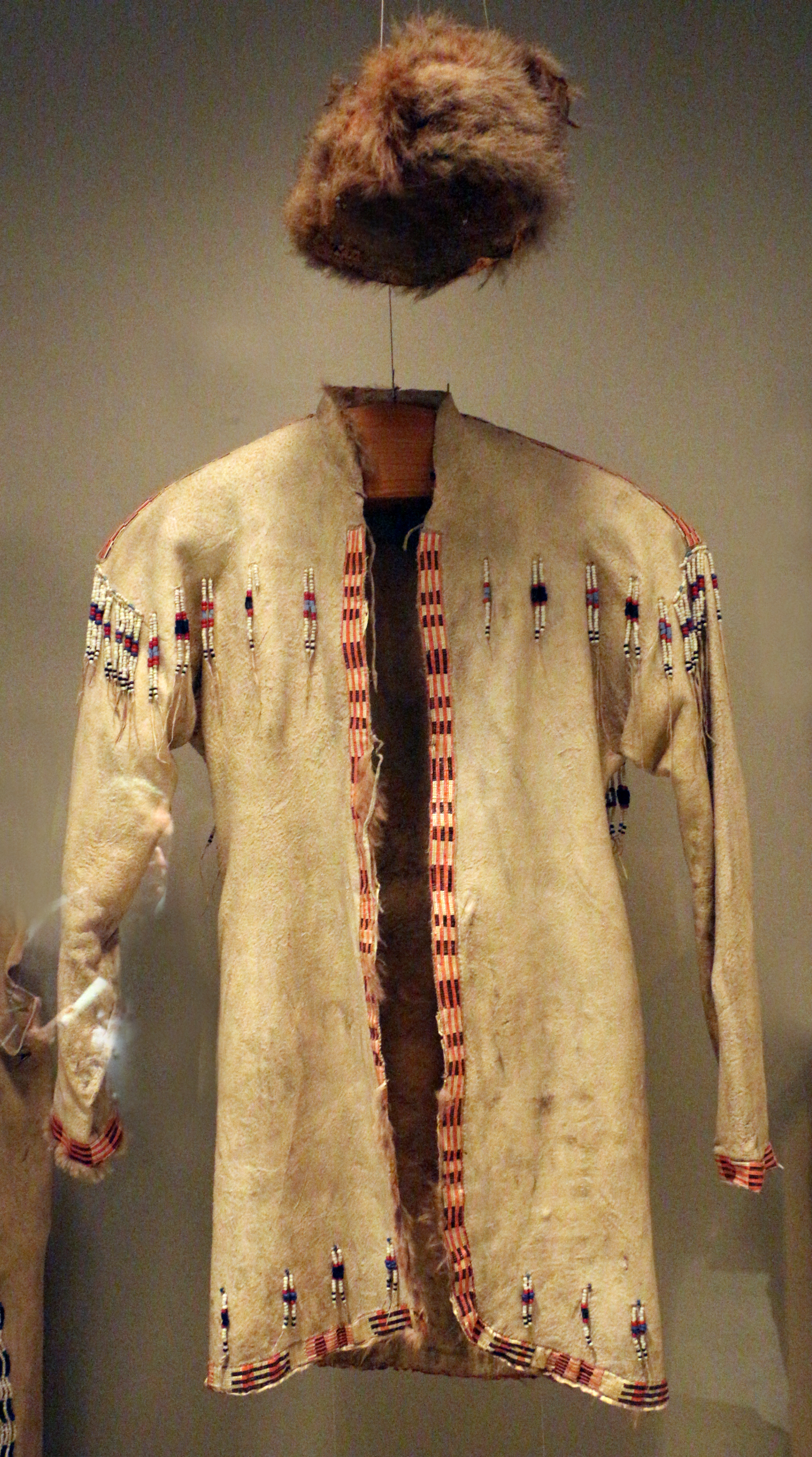 Native American artefacts in the Field Museum of Natural History